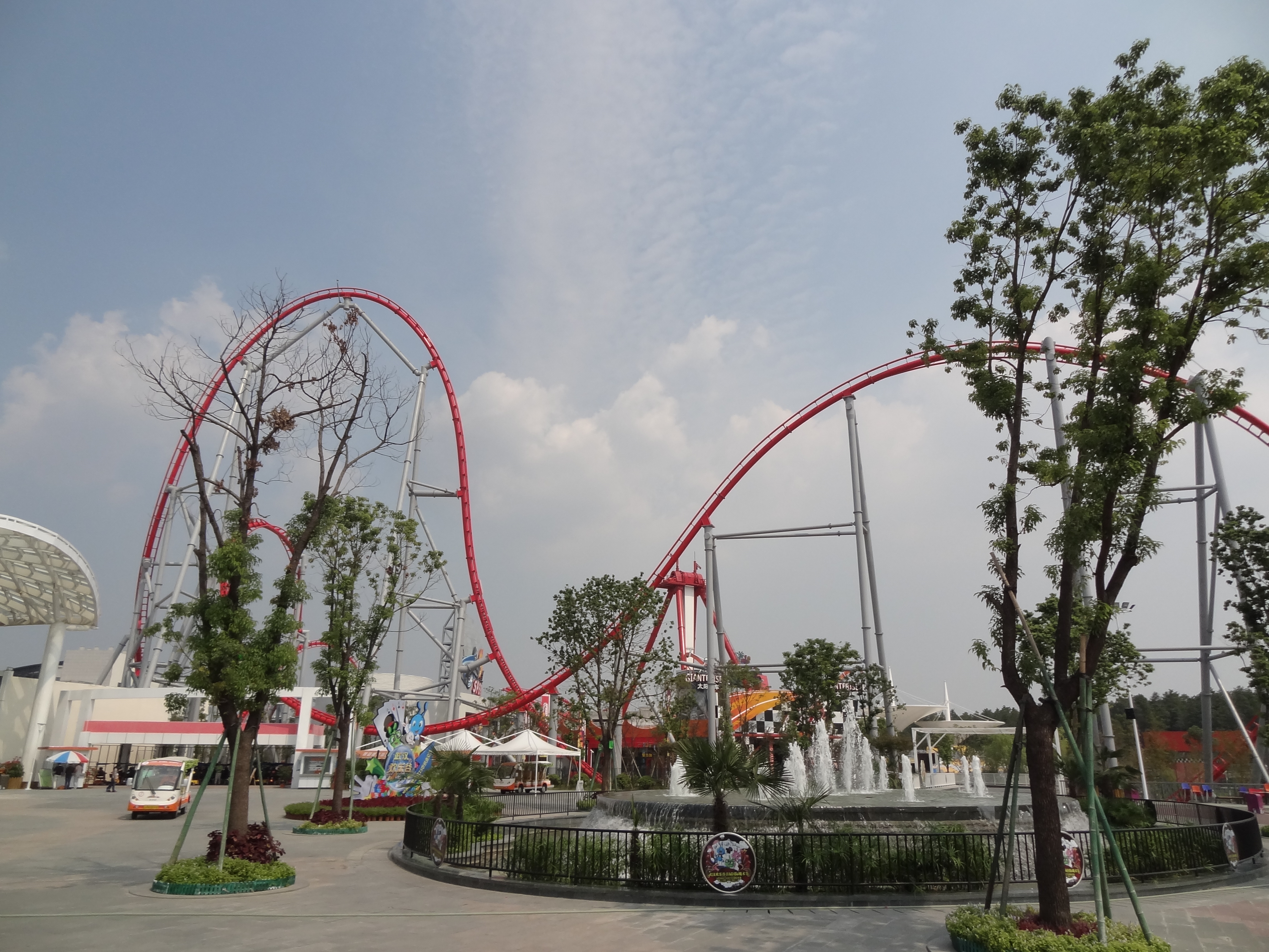 OCT Thrust SSC1000 at Happy Valley Wuhan